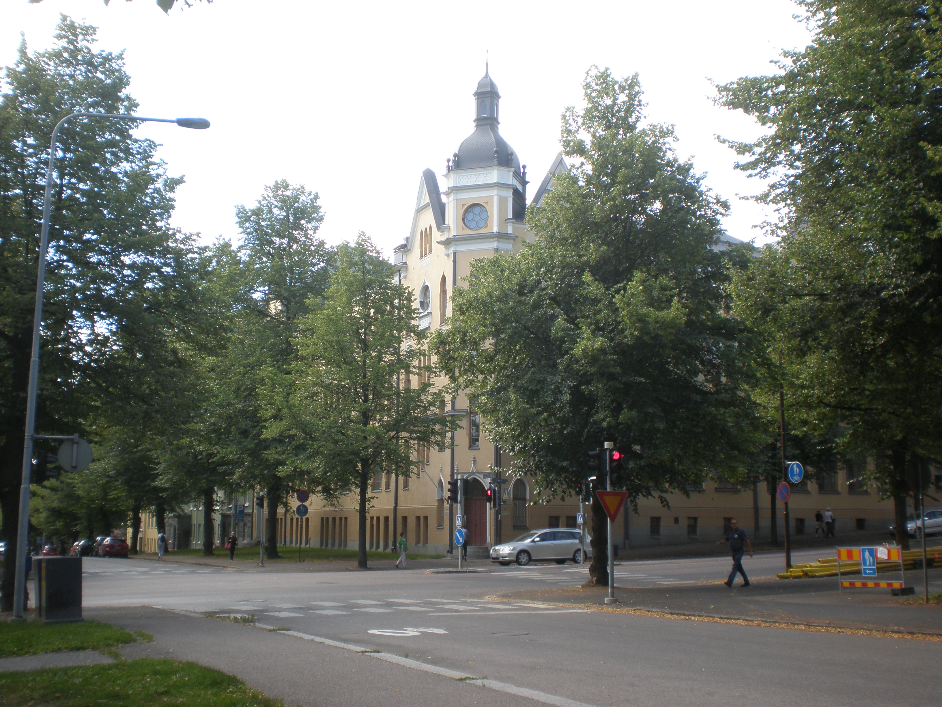 Svenska samskolan i Tammerfors, Swedish school of Tampere